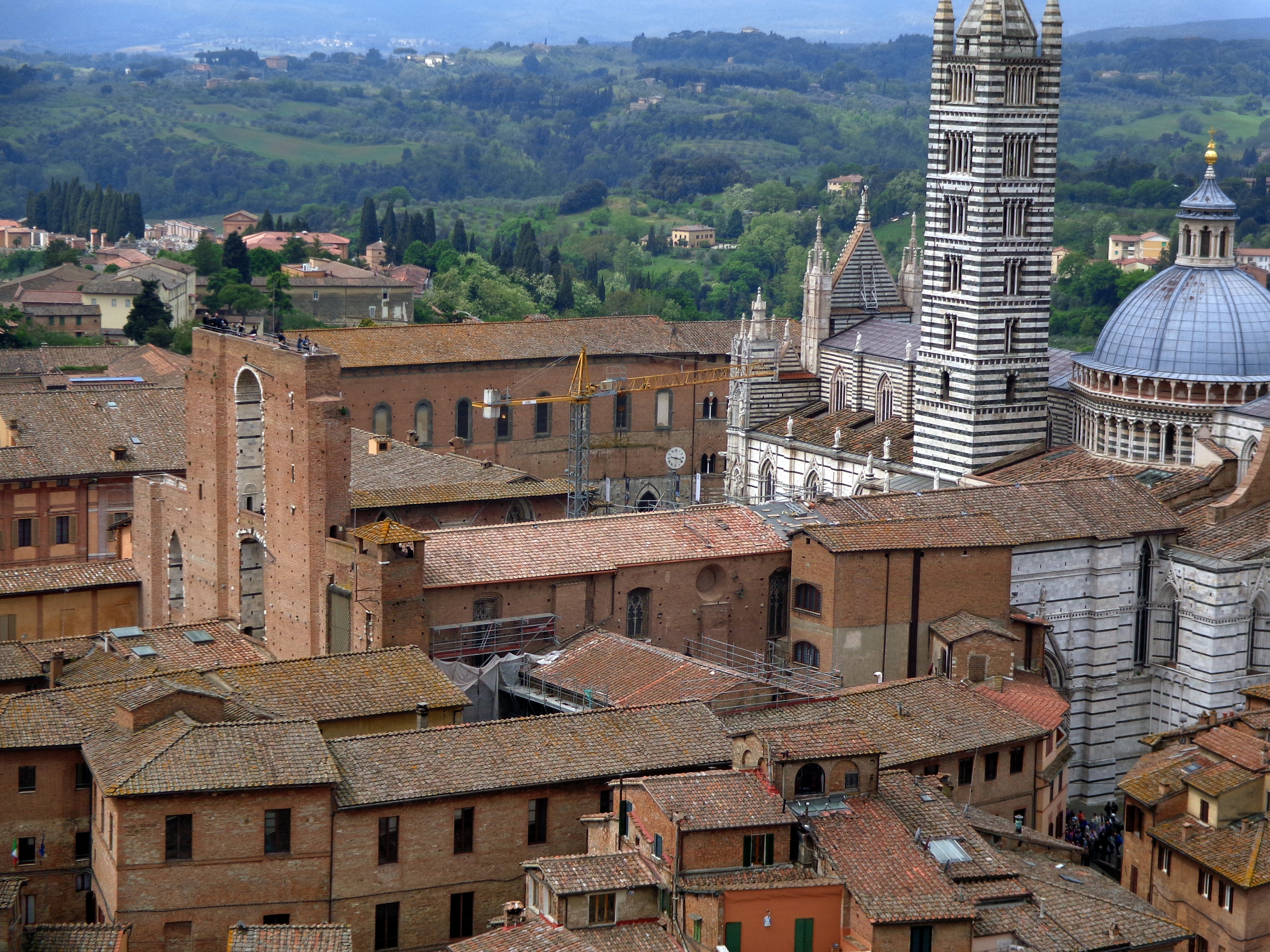 Unfinished nave of the cathedral of Siena